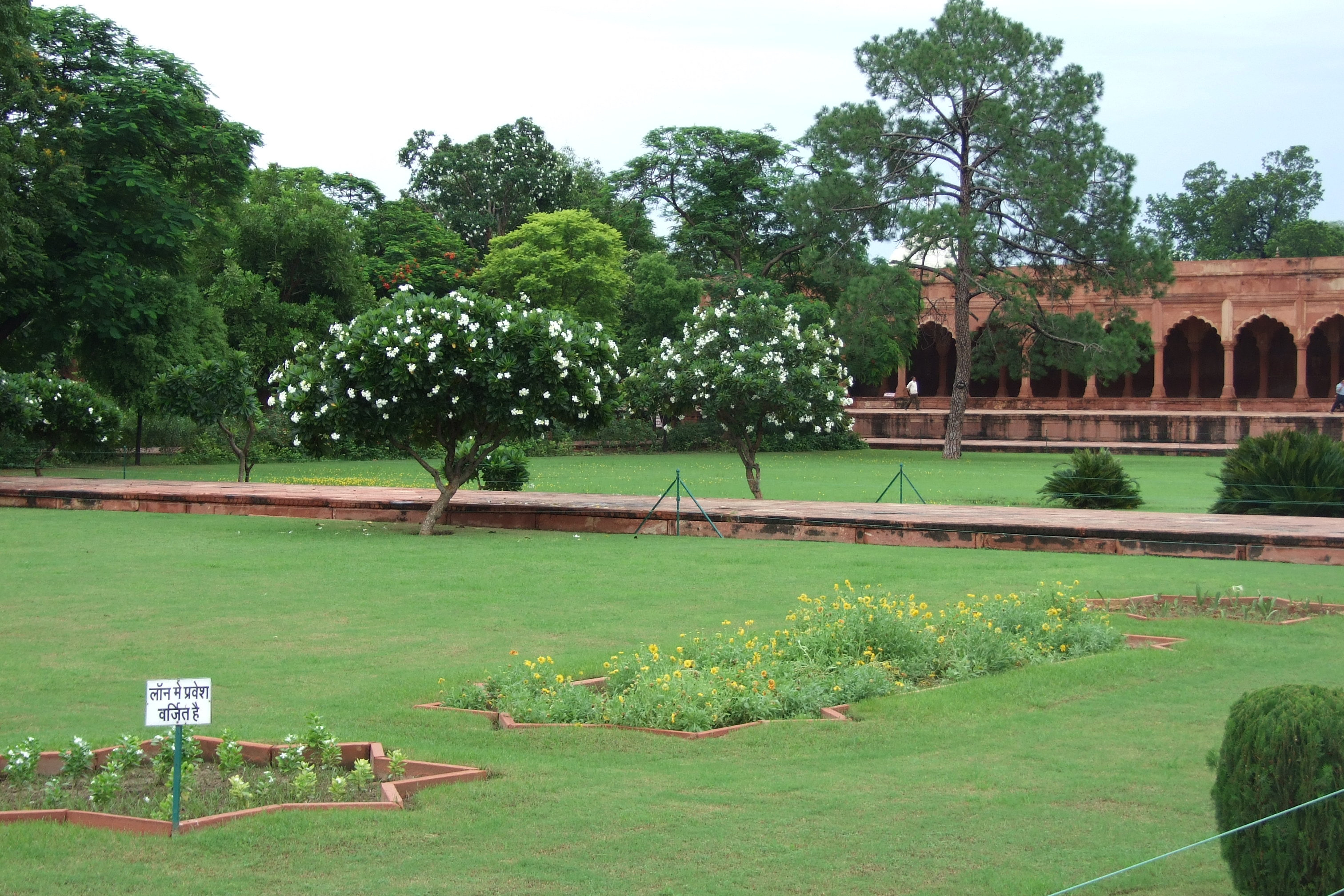 Gardens of the Taj Mahal.